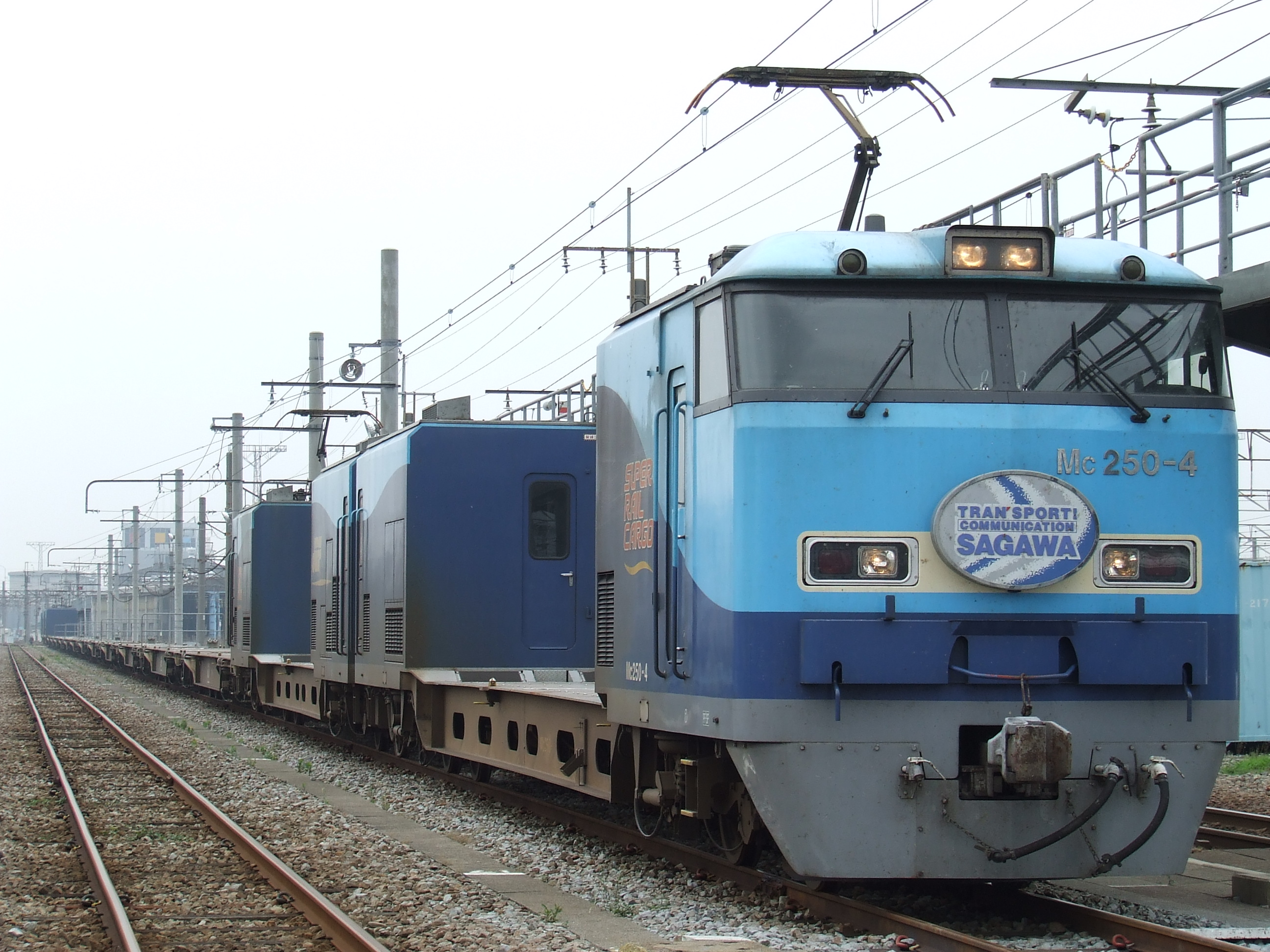 JR Freight M250 series "Super Rail Cargo" set at Tokyo Freight Terminal